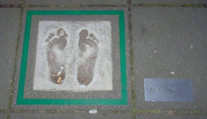 Grace Jones' feet impressions in the Walk of Fame, Rotterdam.